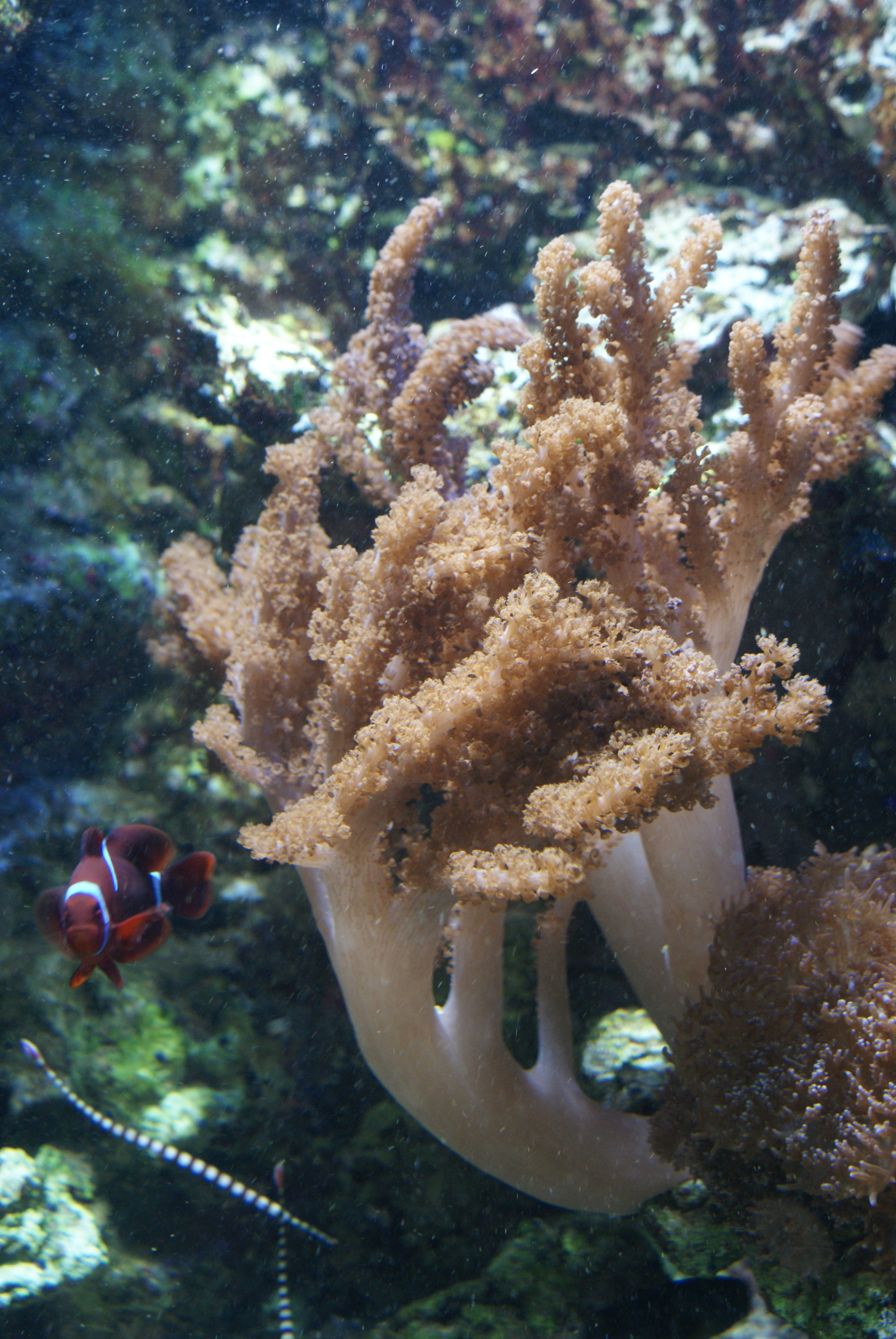 Cladiella colti in Tropicarium-Oceanarium Budapest